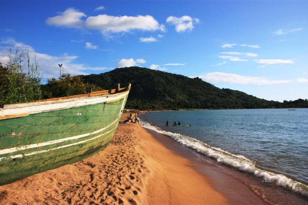 View of Lake Nyasa shore at Mbamba Bay Tanzania 2012